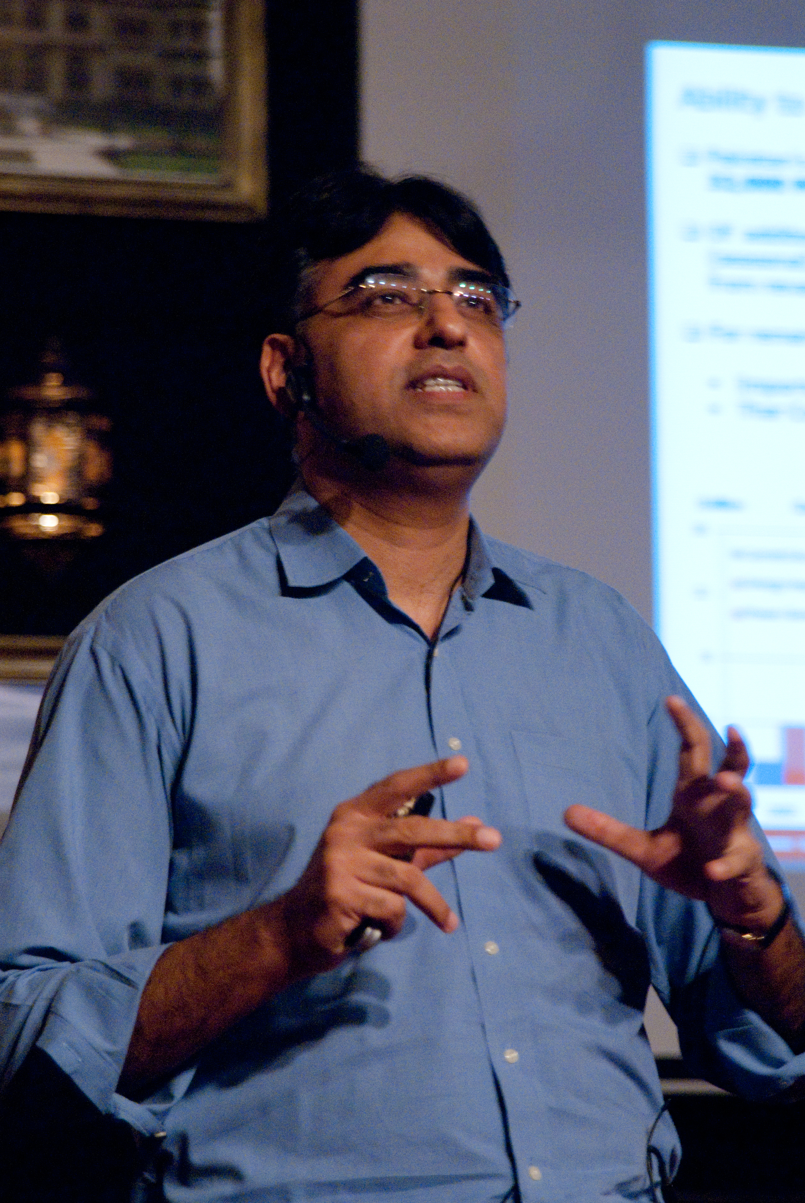 Asad Umar Tedx Karachi